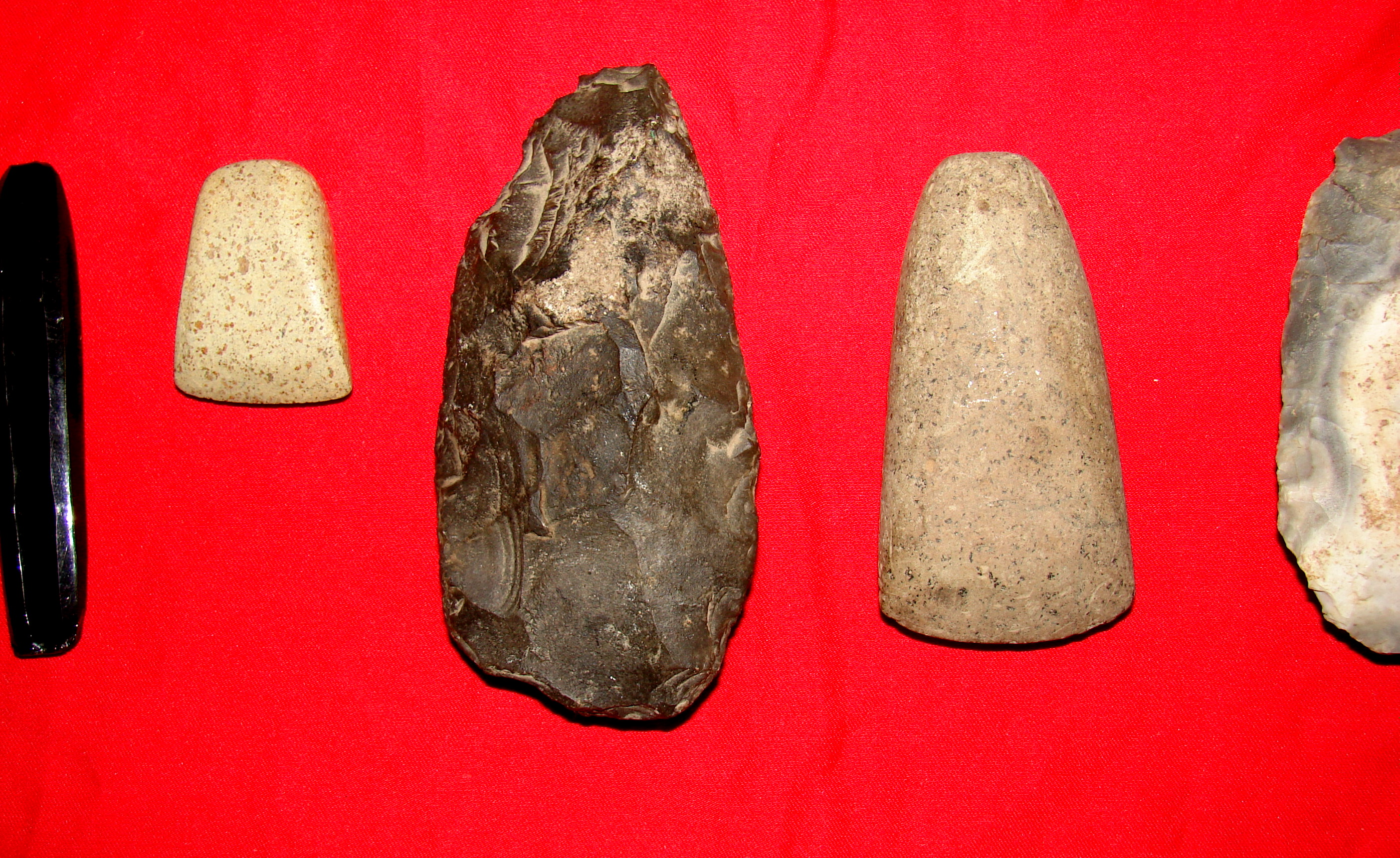 Little stone axes found in Tuxtepec city, Oaxaca